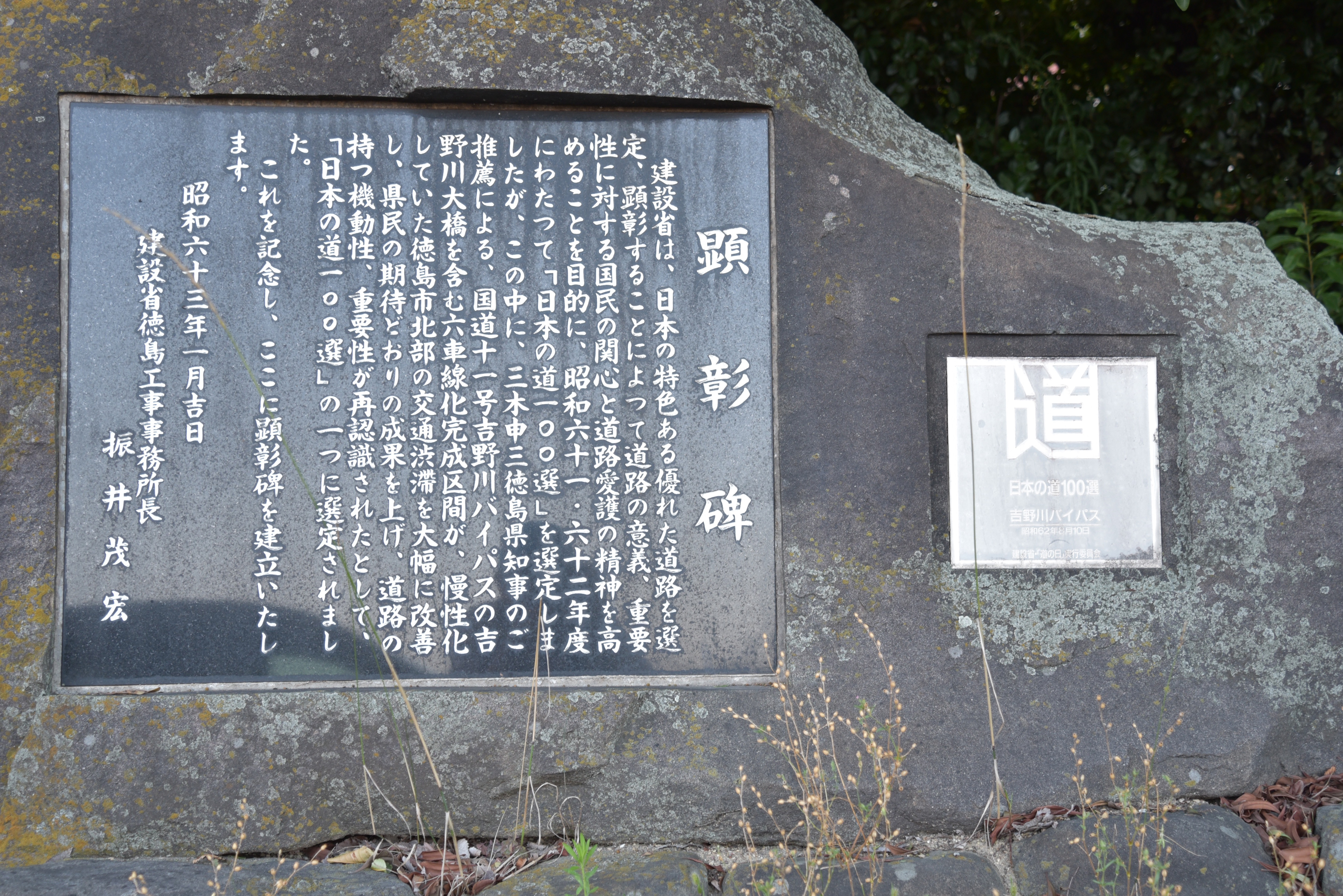 It does not include the artistic elements in this photo. This photo is just a description. This photograph is a label that indicates that the Ministry of Land, Infrastructure and Transport has been selected as the "Japan of the road hundred election".